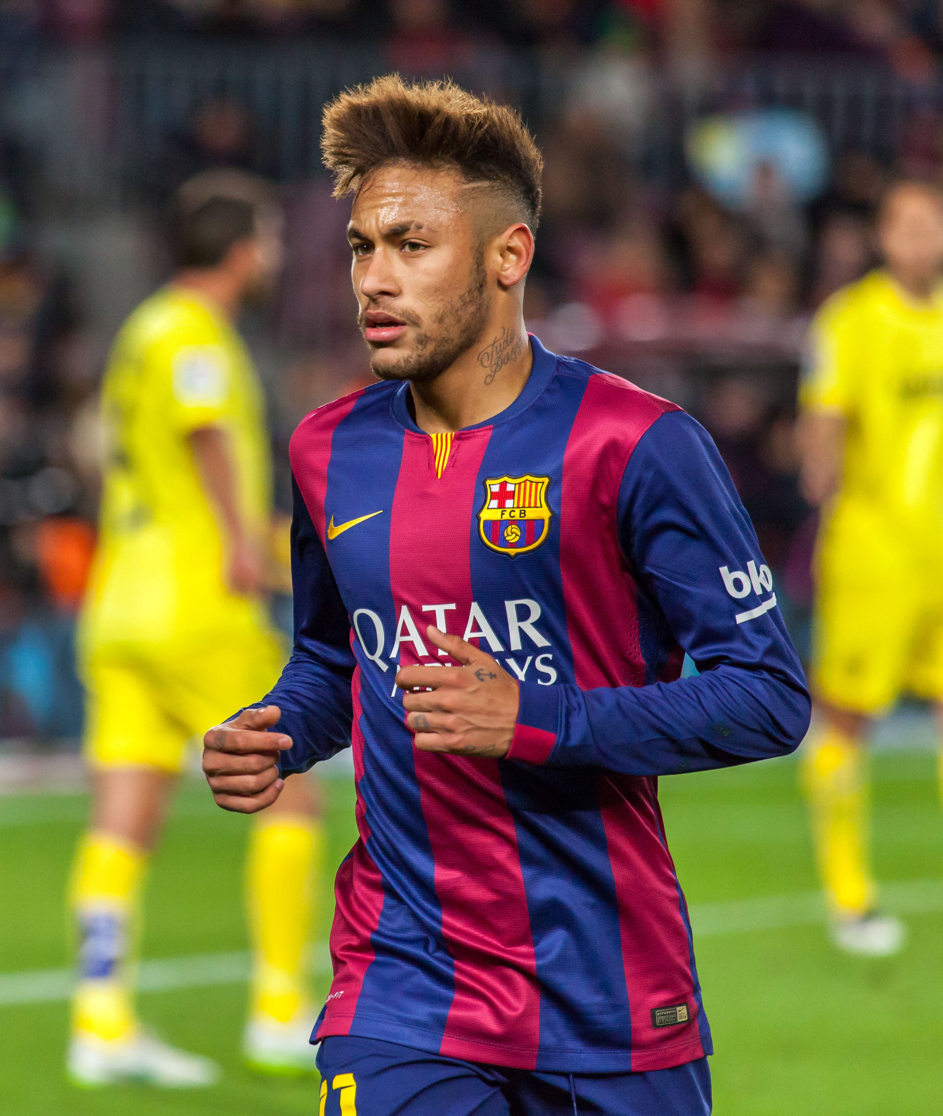 Neymar playing for Barcelona against Villarreal in La Liga, 1 February 2015. Neymar opened the scoring for Barcelona in their 3–2 win.